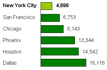 Average annual residential electricity usage by city, 2000-2005. Source: Mayor's Office of Long Term Planning and Sustainability, PlaNYC 2030, City of New York.